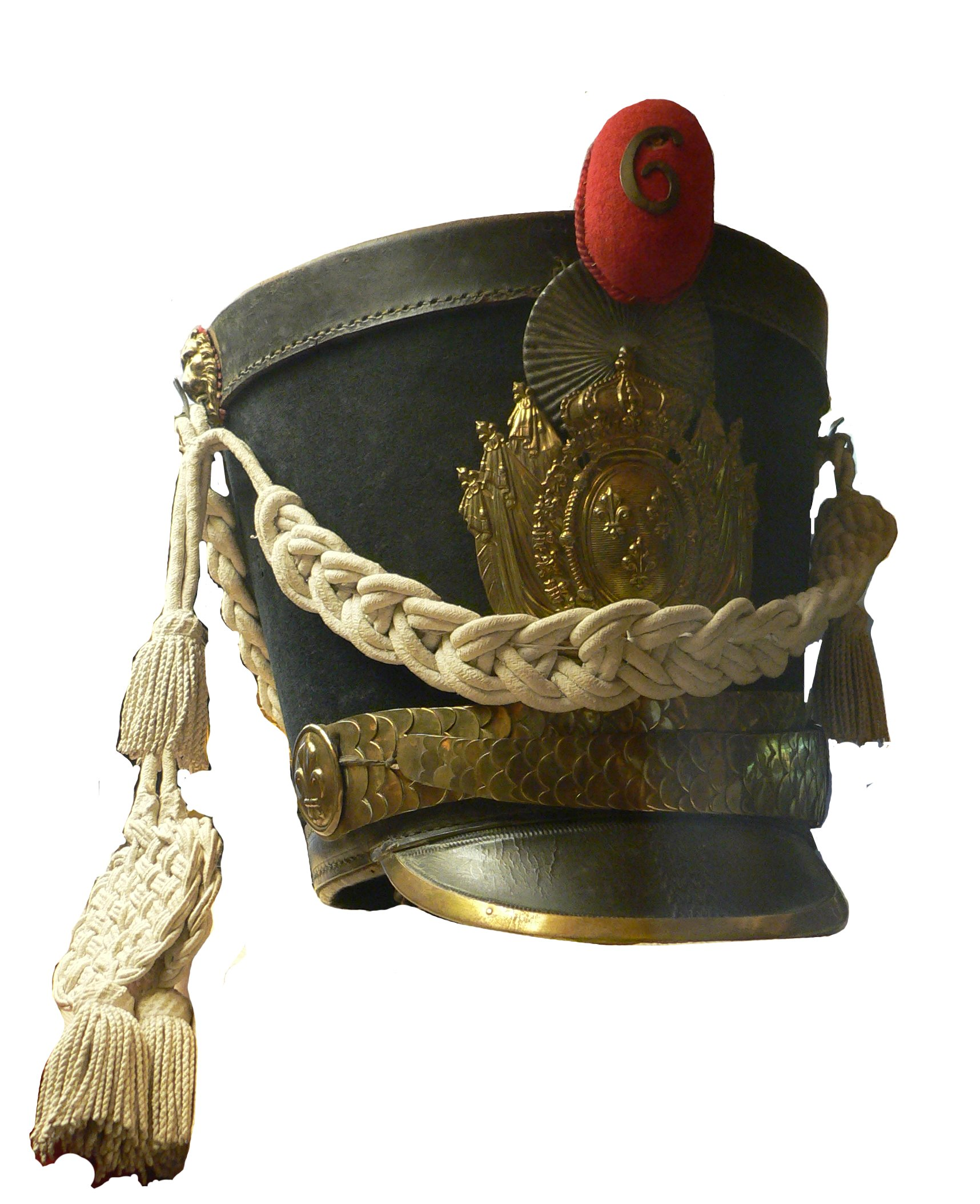 Shako 6th company of the Royal guard of France, (1822-1830 ?). Morges castel, Switzerland.